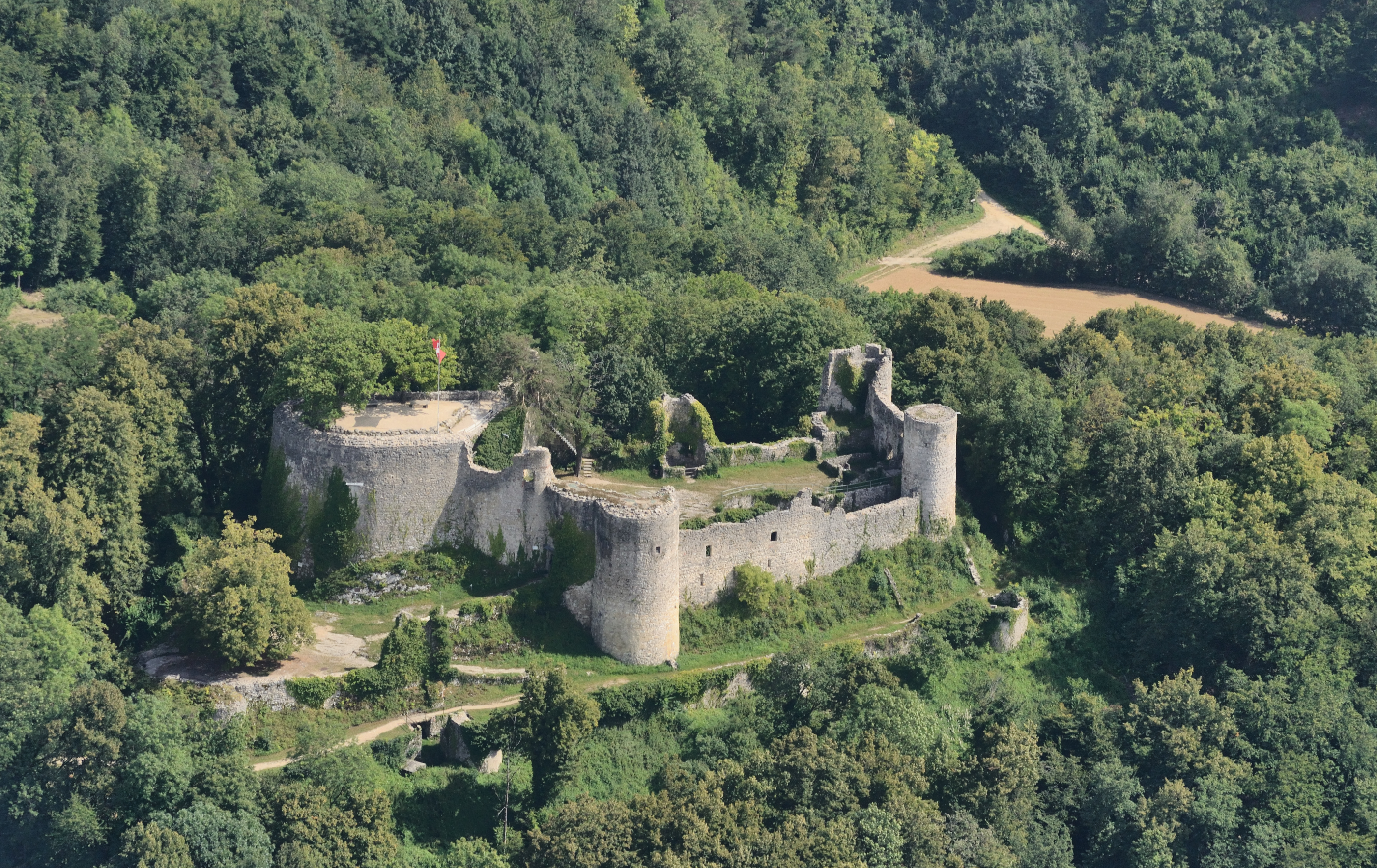 aerial view of ruin Dorneck